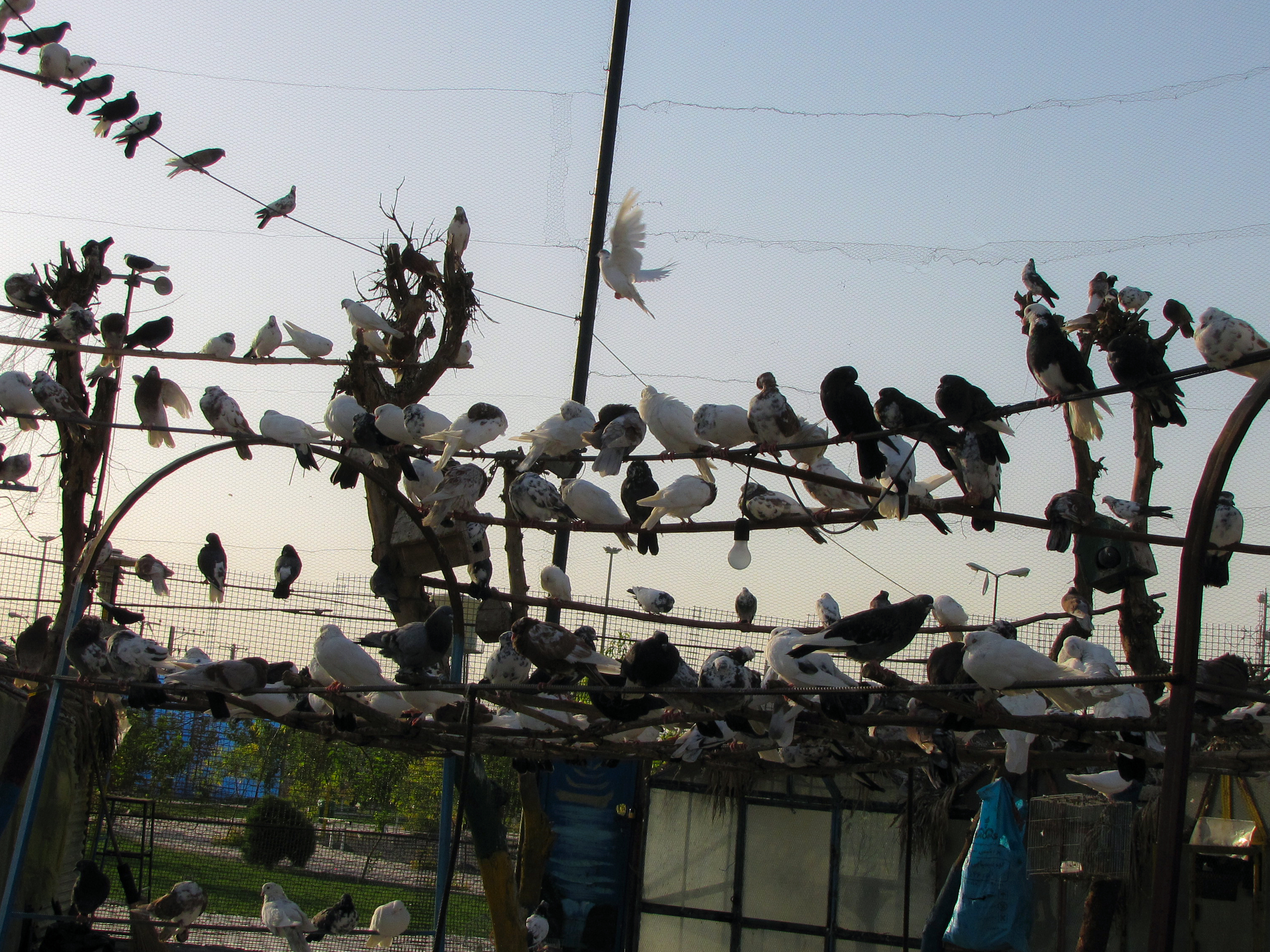 Pigeons and doves constitute the bird family Columbidae, which includes about 42 genera and 310 species.